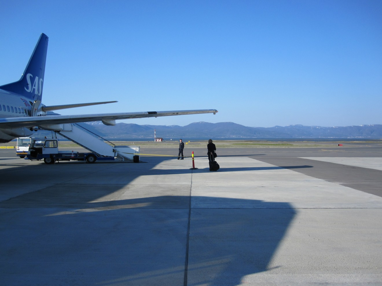 Aircraft at Alta Airport